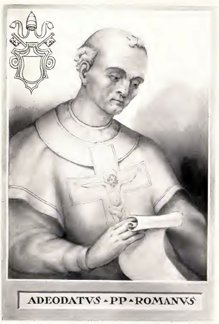 This illustration is from The Lives and Times of the Popes by Chevalier Artaud de Montor, New York: The Catholic Publication Society of America, 1911. It was originally published in 1842.